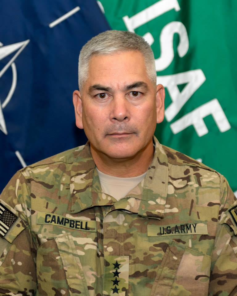 General John F. Campbell, Commander, International Security Assistance Force -- Afghanistan and United States Forces -- Afghanistan